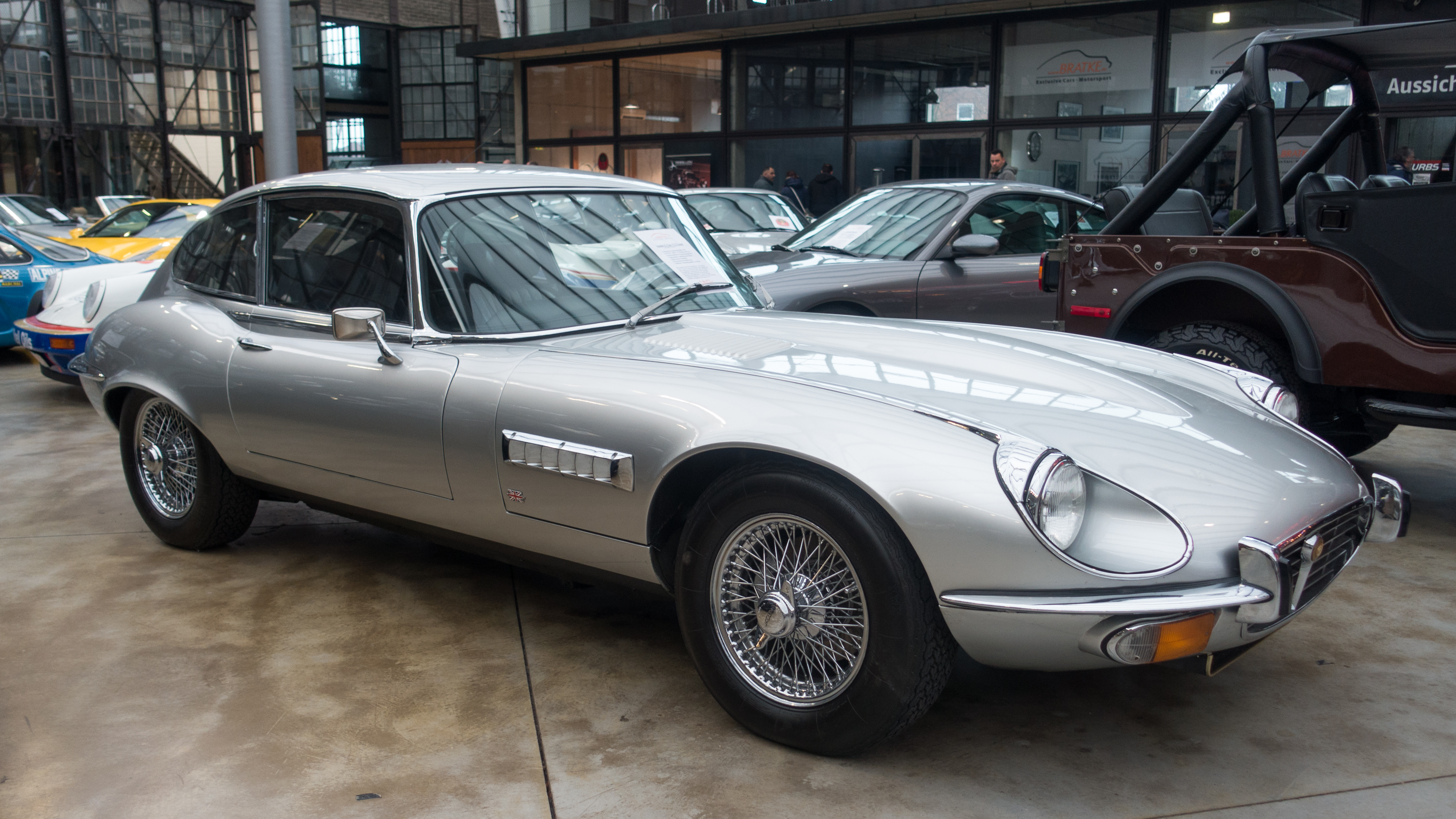 Jaguar E-Type V12 (1972) at Classic Remise Düsseldorf